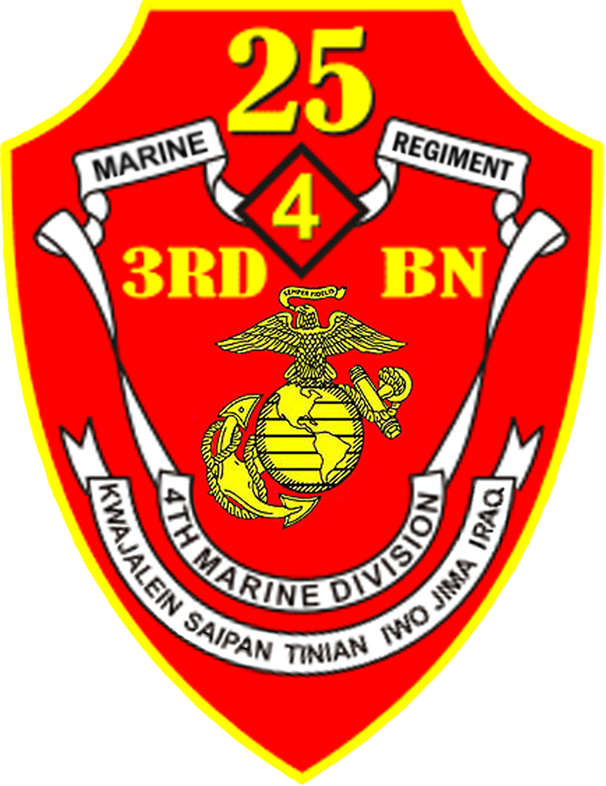 United States Marine Corps 3rd Battalion, 25th Marines insignia, . Modified version of the image found on the unit's website. Made with Photoshop.